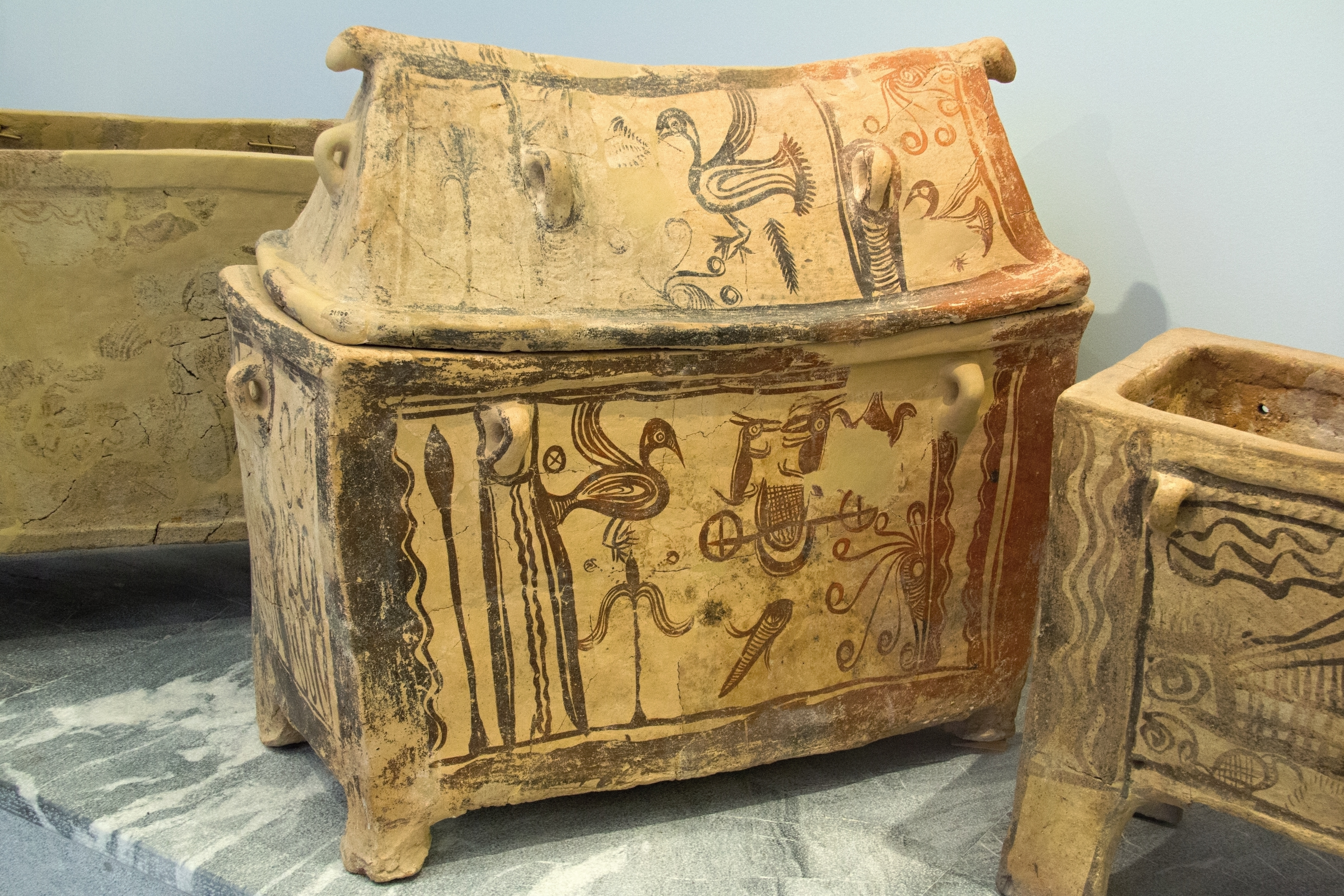 Minoan larnax with painting of brids, carriage and seascape. Crete, probably Postpalatial period. Archaeological Museum of Heraklion.